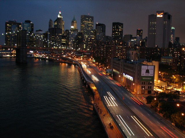 Night view of Manhattan, captured from the Manhattan Bridge